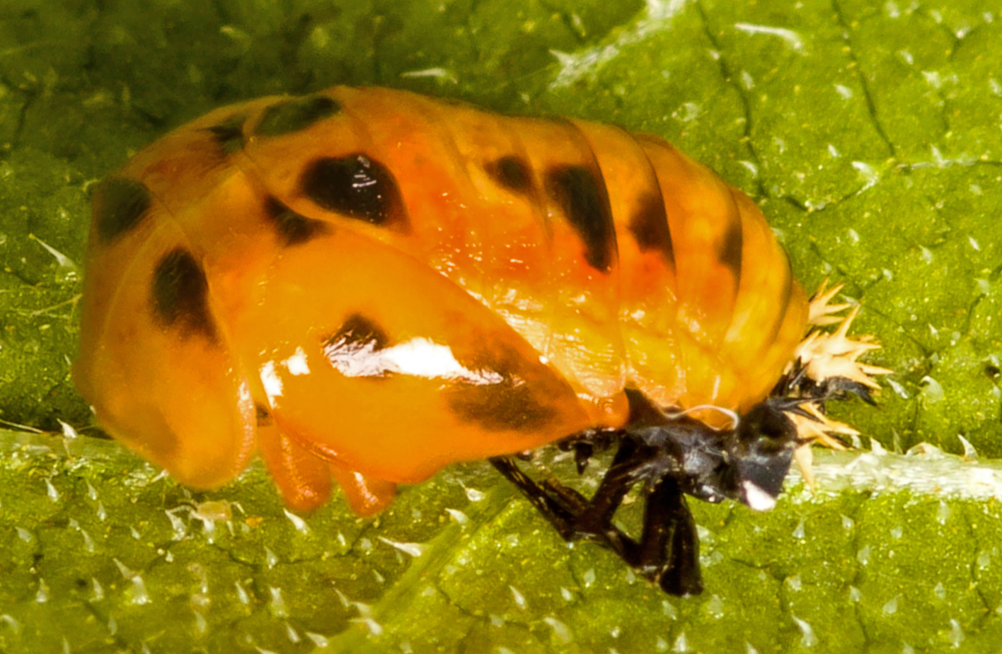 The larva of an Asian ladybug skins itself into a pupa. Remains of the larva skin can still be seen, e. g. the legs and the bristles.